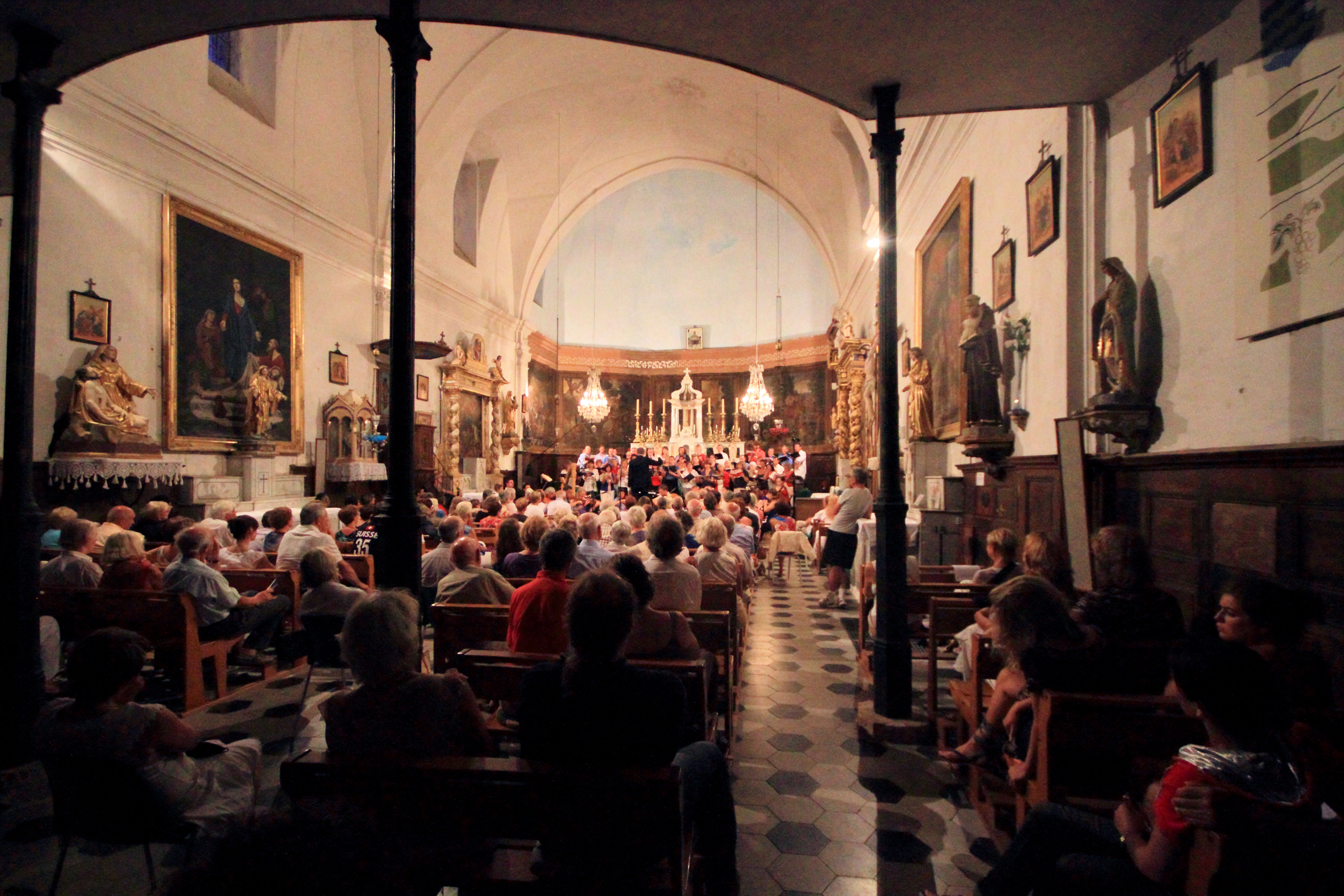 a Musique-Cordiale Festival concert in Bagnols-en-Foret, France, 2010